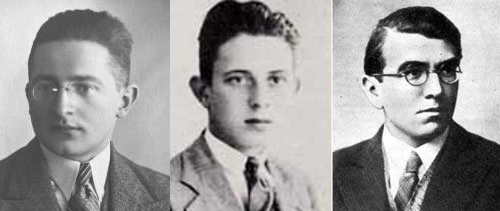 The three polish codebreakers Marian Rejewski, Jerzy Różycki, and Henryk Zygalski (ca. 1928-1932)